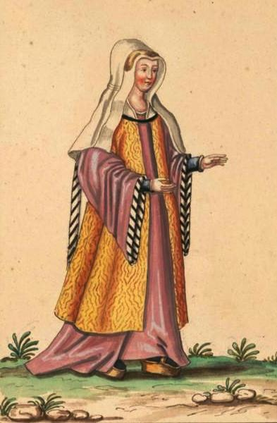 Drawing of a woman belonging to the Catalan bourgeoisie